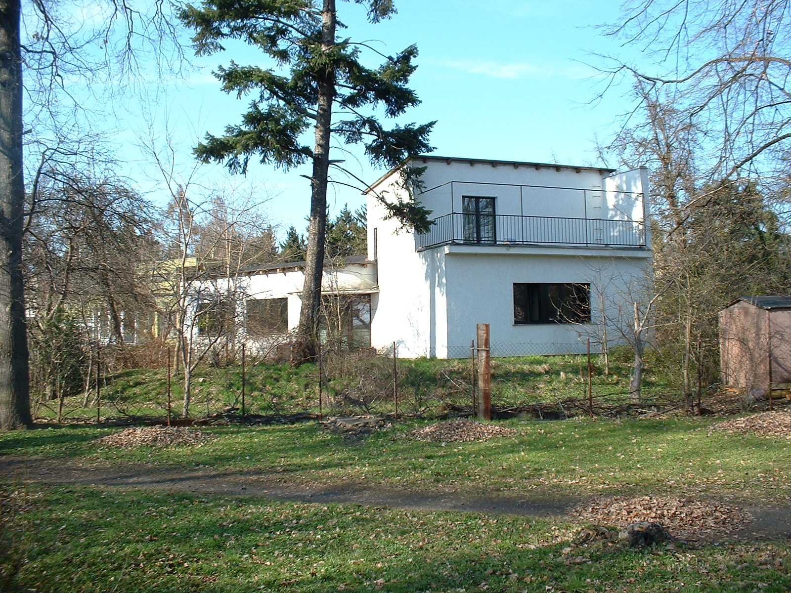 Wrocław, WUWA, Detached house No. 37 by Ludwig Moshamer.